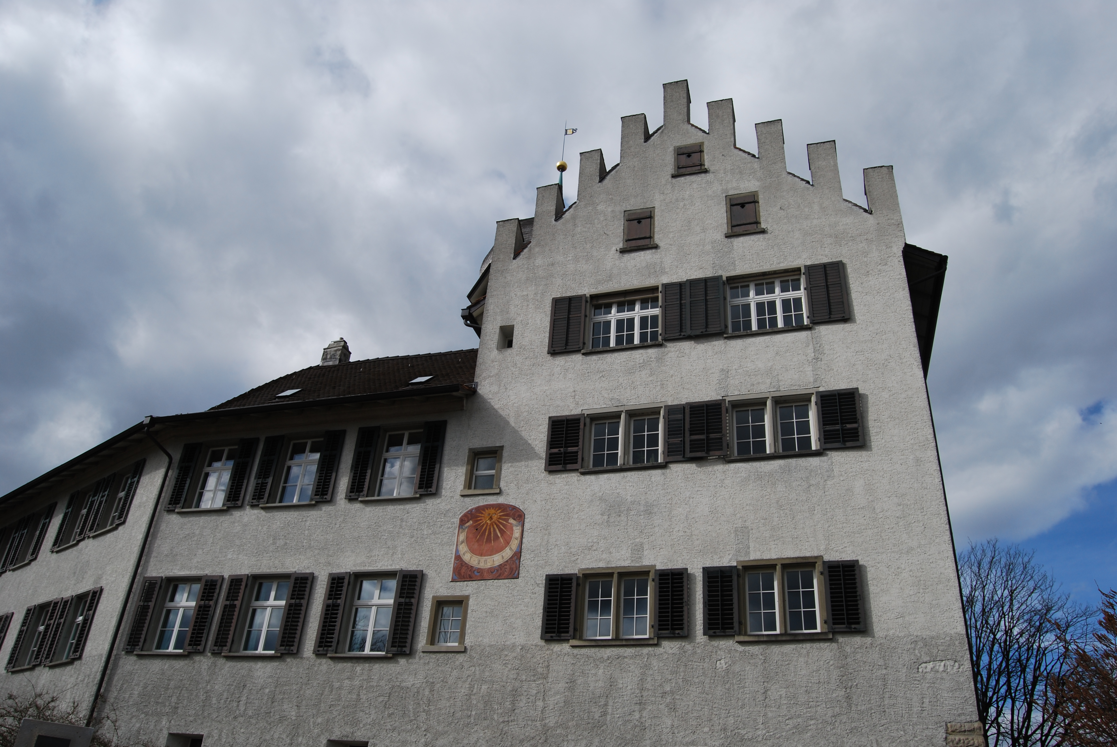 Castle Bürglen, canton of Thurgovia, Switzerland